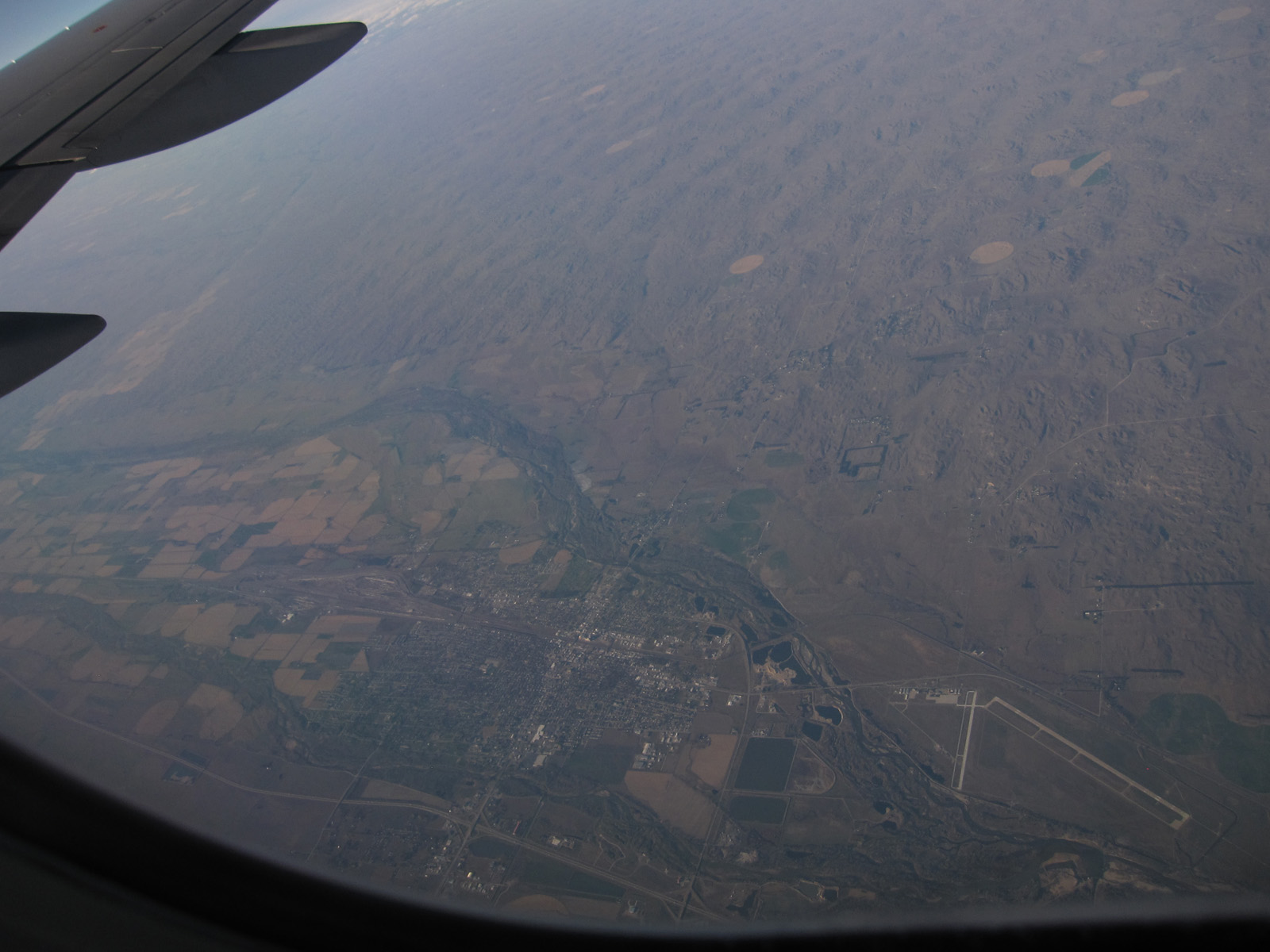 Still following roughly I-80 west of Chicago, but from here on I turn southwest. North Platte is just east of the I-76 and I-80 junction; I-76 follows the South Platte River to Denver. Enroute from Chicago O'Hare to Los Angeles. This photo is especially dedicated to comedienne Jackie Kashian, who likes to mention North Platte as the most horrible place she's ever been to. I don't blame her - the undeveloped landscape around here is quite forbidding-looking. (Update: On Facebook in response to this photo, Jackie said that Atlantic City, New Jersey is now even worse.) N570UA, Boeing 757-200